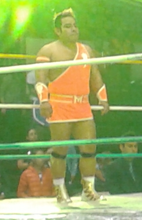 Máximo on May 12, 2013 in Gimnasio Nuevo León of Monterrey, Nuevo León.